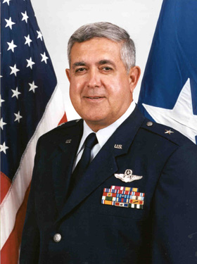 Wright was commissioned into the United States Armed Forces in June 1964. Upon the completion of his training, he joined the Minnesota Air National Guard and later transferred to the Oklahoma Air National Guard. He retired with the rank of brigadier general in 1999.[1] Wright took office as a Republican member of the Oklahoma Senate in January 1983, and served until 1999